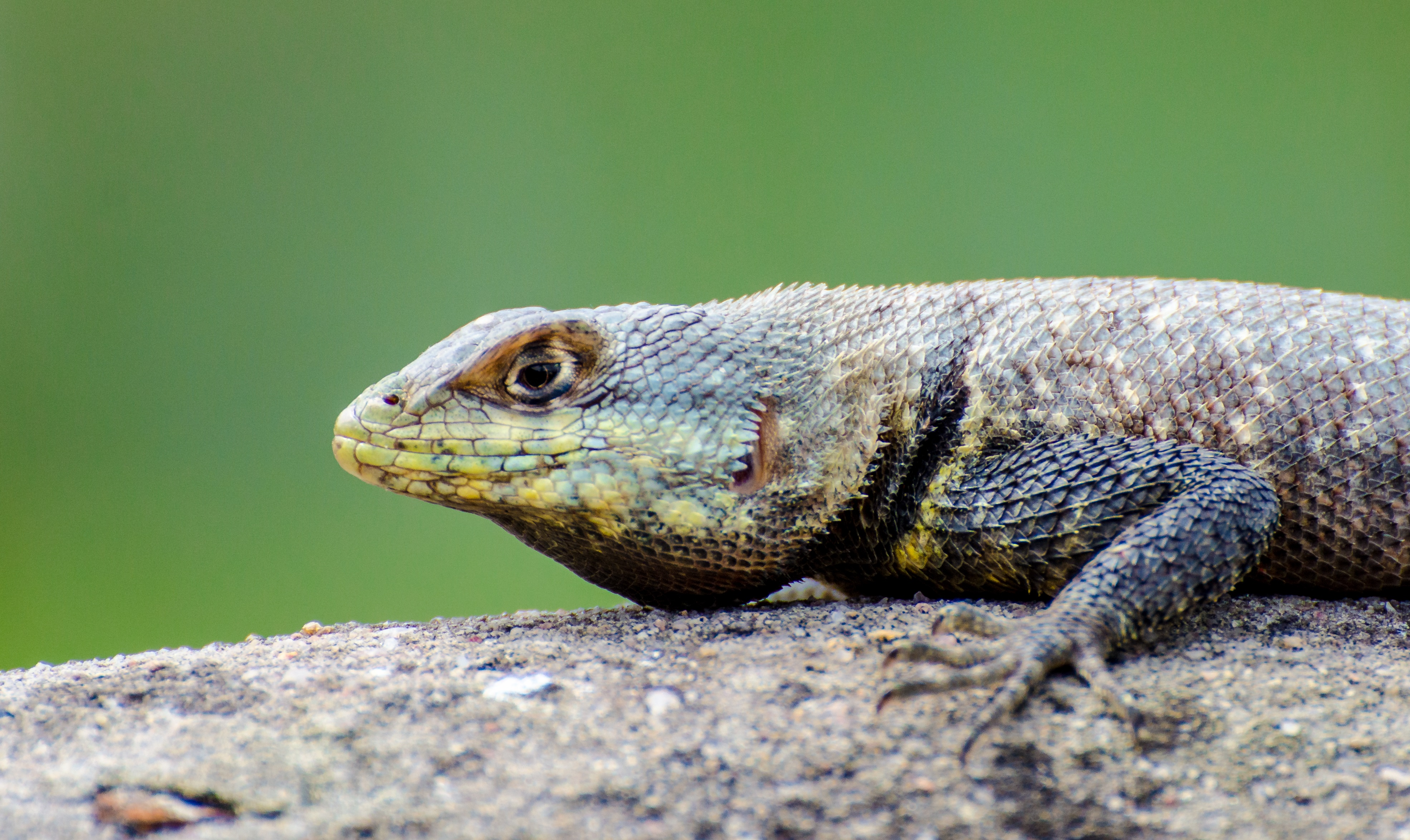 Tropidurus hispidus